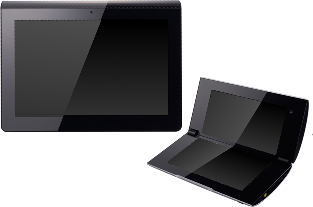 Sony Tablet Ilustration. Left: S1, right: S2 (codenames). This file was created in GIMP and it's totally my own work.